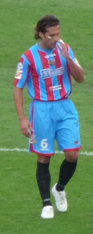 Udinese - Catania 4-2 13/09/2009